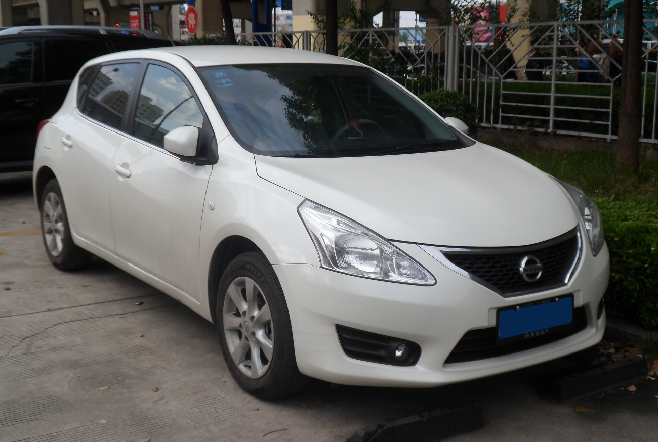 Nissan Tiida C12 photographed in Shanghai, China.